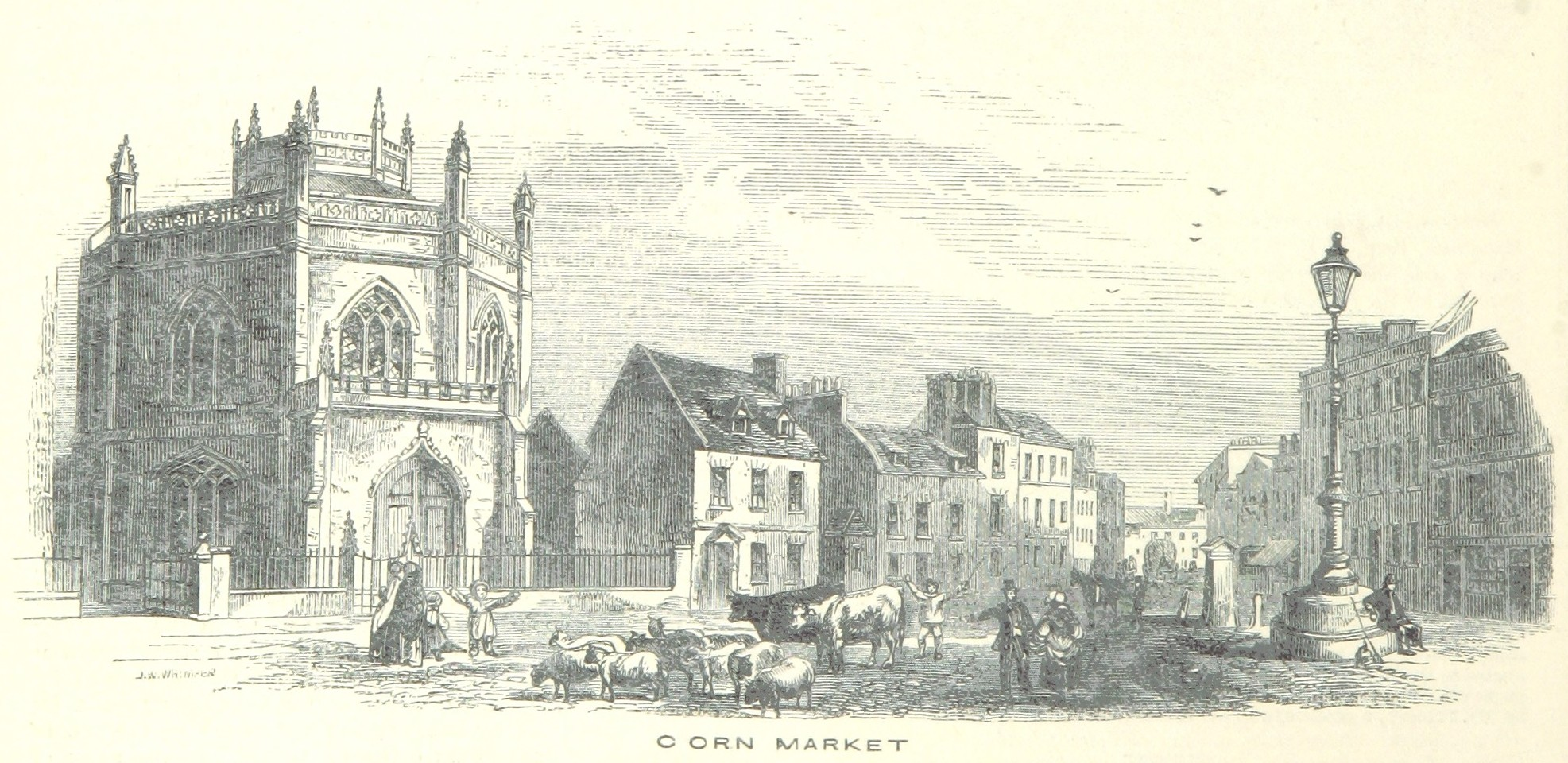 Wisbech Old Market, looking north-east up Chapel Road. The Octagon Chapel, opened in 1831, was demolished in 1952. "The principal trade in Wisbeach is that of corn, and the corn-market in this place is one of the most important in the country, there being about 120,000 quarters of corn annually shipped here for Lynn, Cambridge, and other places; this is grown in the neighbourhood, the amount having very much increased of late years by the recent inventions in agriculture; much of the land, which was formerly covered with fens, having thus been lately recovered."